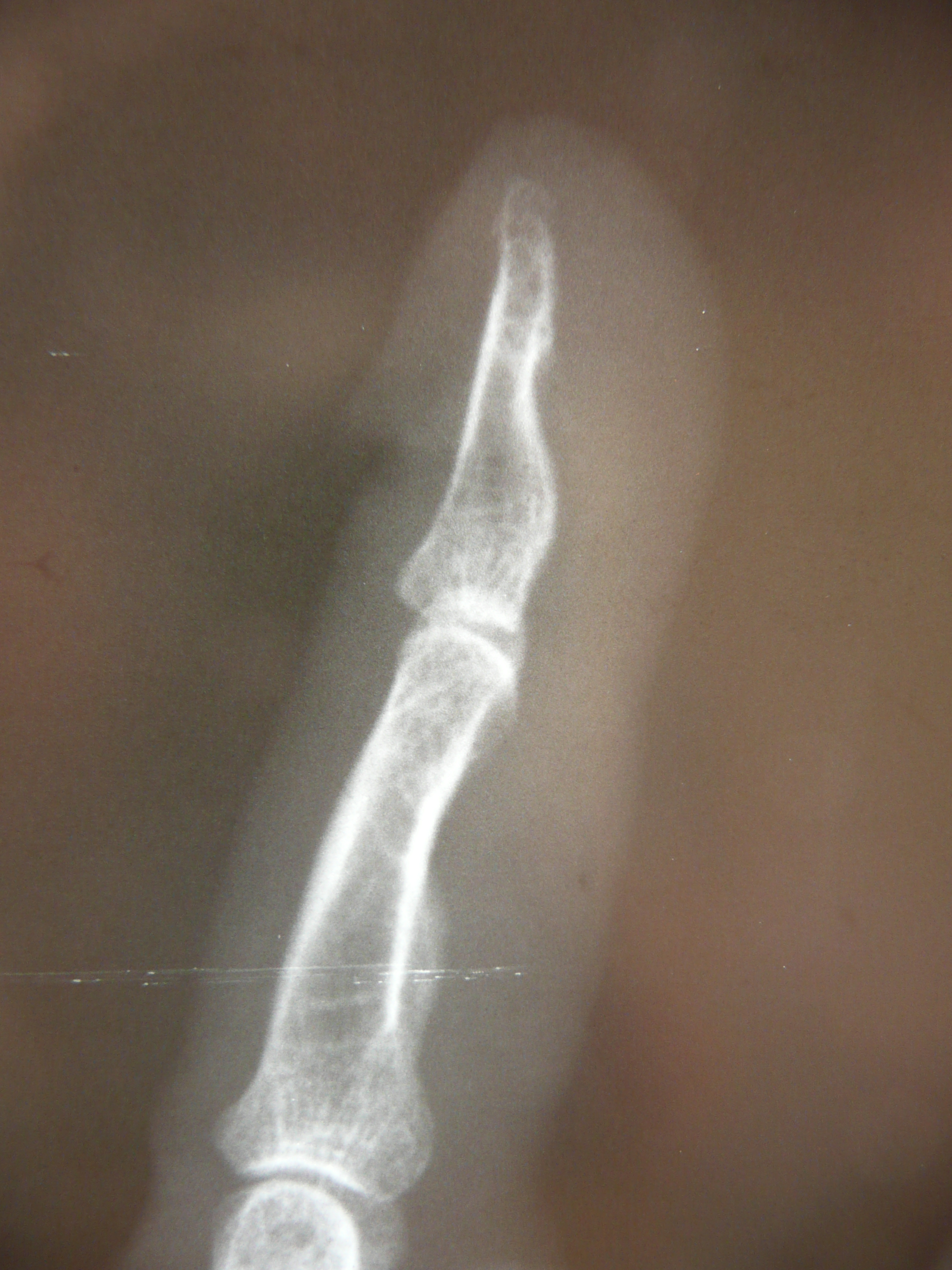 Medical X-rays